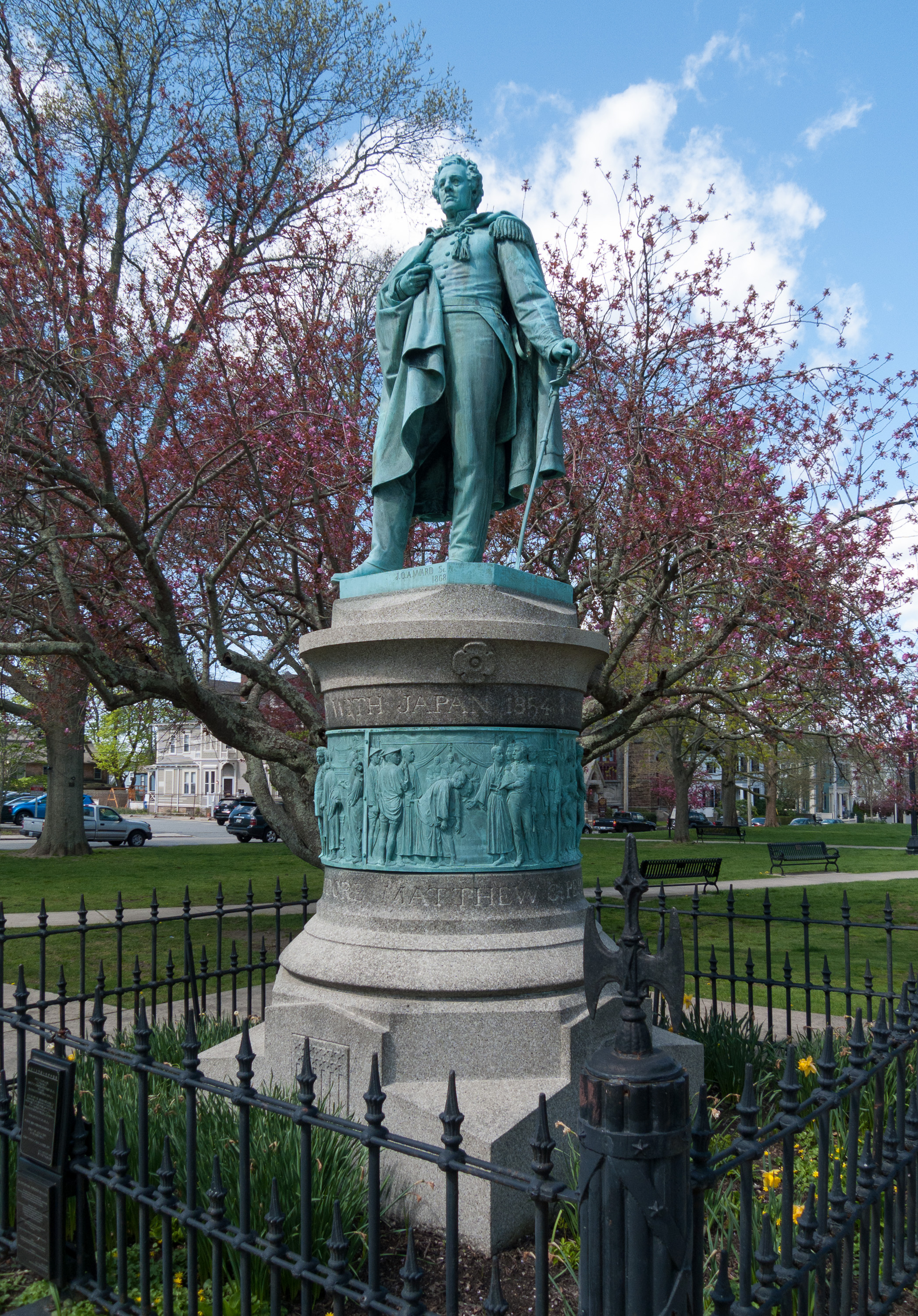 Matthew Perry statue, Touro Park, Newport, Rhode Island